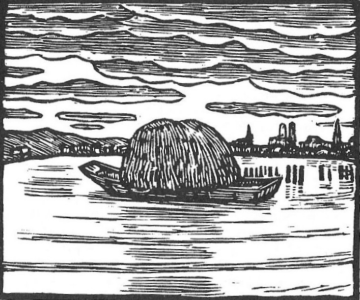 The Hay Barge